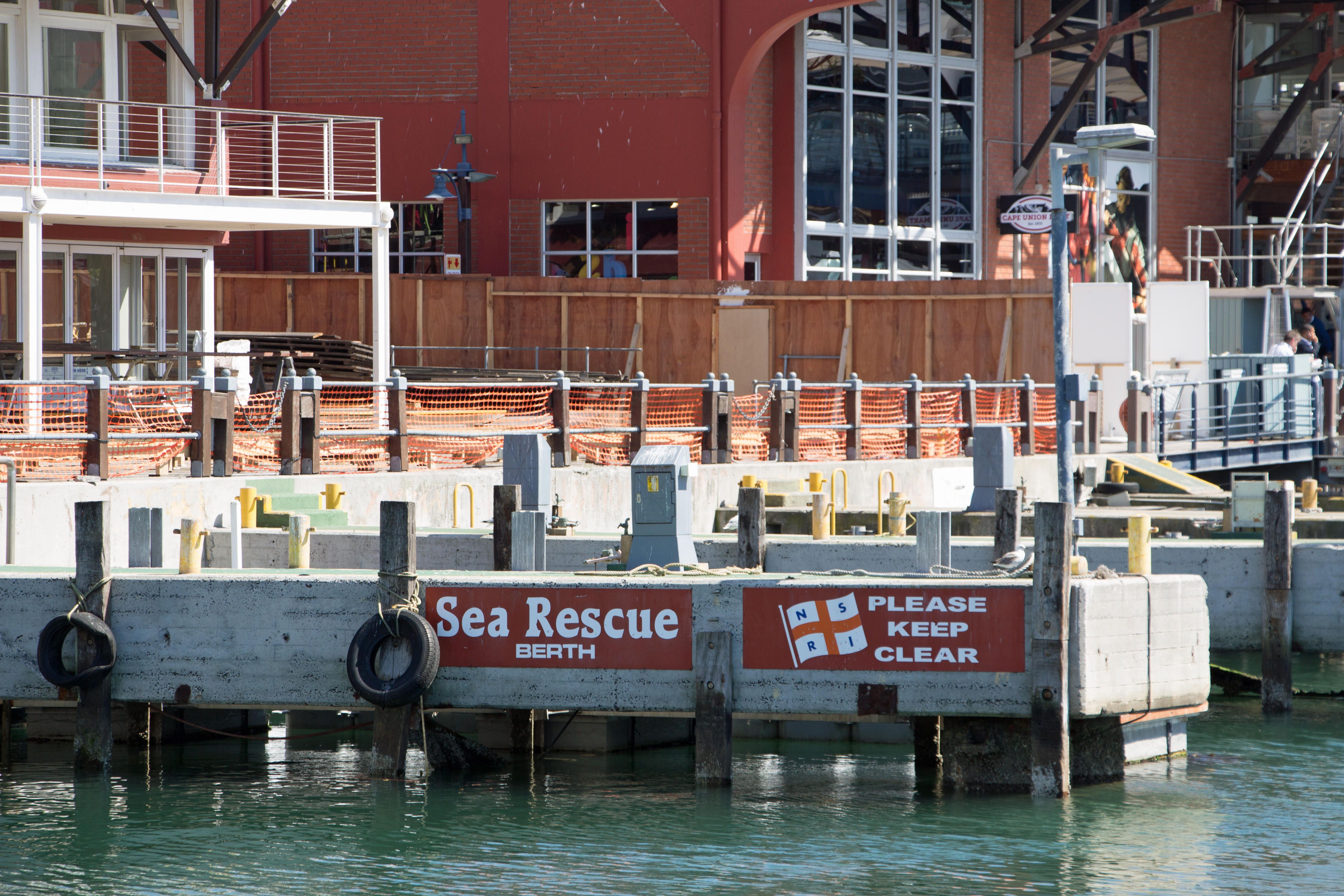 NSRI sea rescue berth, Victoria Basin, V&A Waterfront, Cape Town